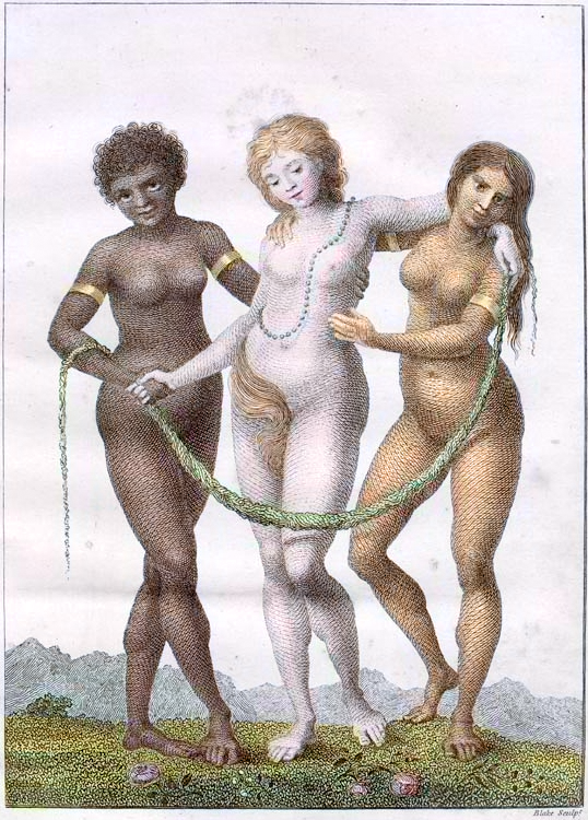 William Blake, Europe Supported By Africa and America, 1796. Engraving. Illustration from John Gabriel Stedman, Narrative of a Five Years' Expedition against the Revolted Negroes of Surinam in Guiana on the Wild Coast of South America; from the Year 1772 to 1777. . . 2 vols.